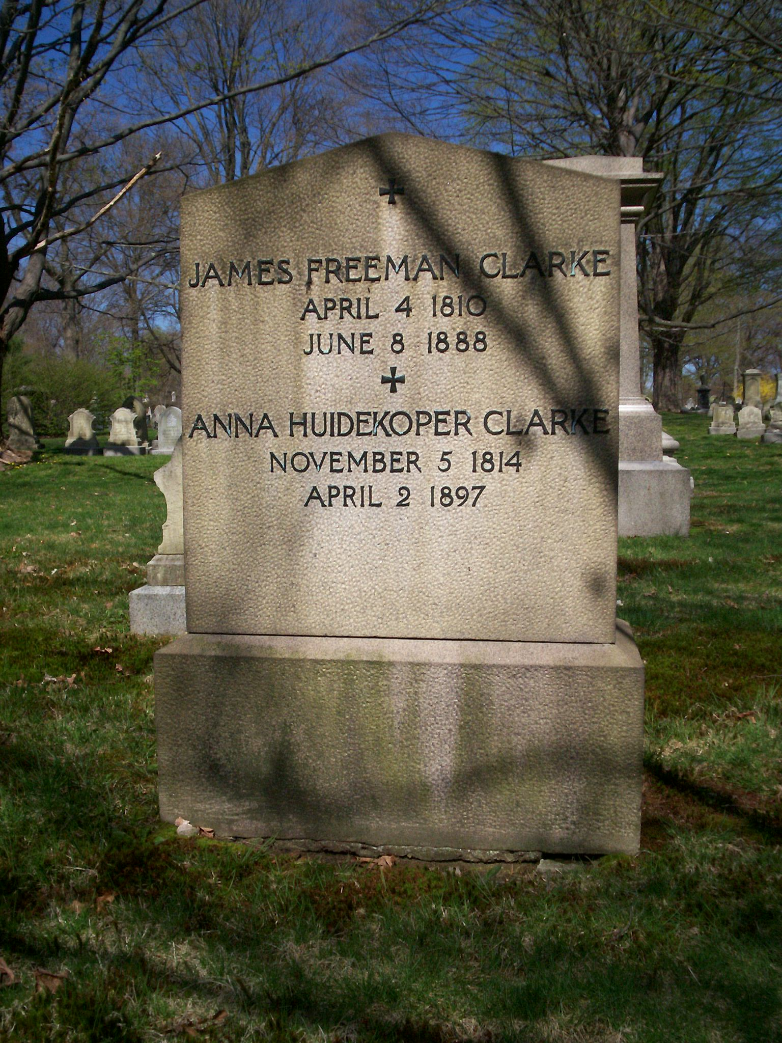 Photo of the grave of American author Rev. James Freeman Clarke and his wife at Forest Hills Cemetery, Jamaica Plain, Massachusetts.